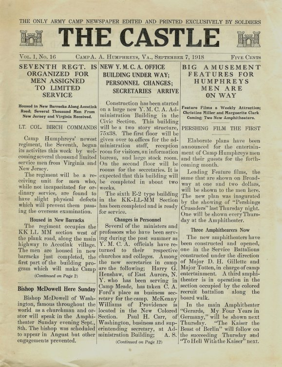 Front page of the 12-page The Castle newspaper of U.S. Army Camp A. A. Humphreys, later renamed Fort Belvoir-. Store Web page states: "Sept 1918 Camp A.A. Humphreys Virginia Base Newspaper.12 Pages of News From Arounsd the camp."